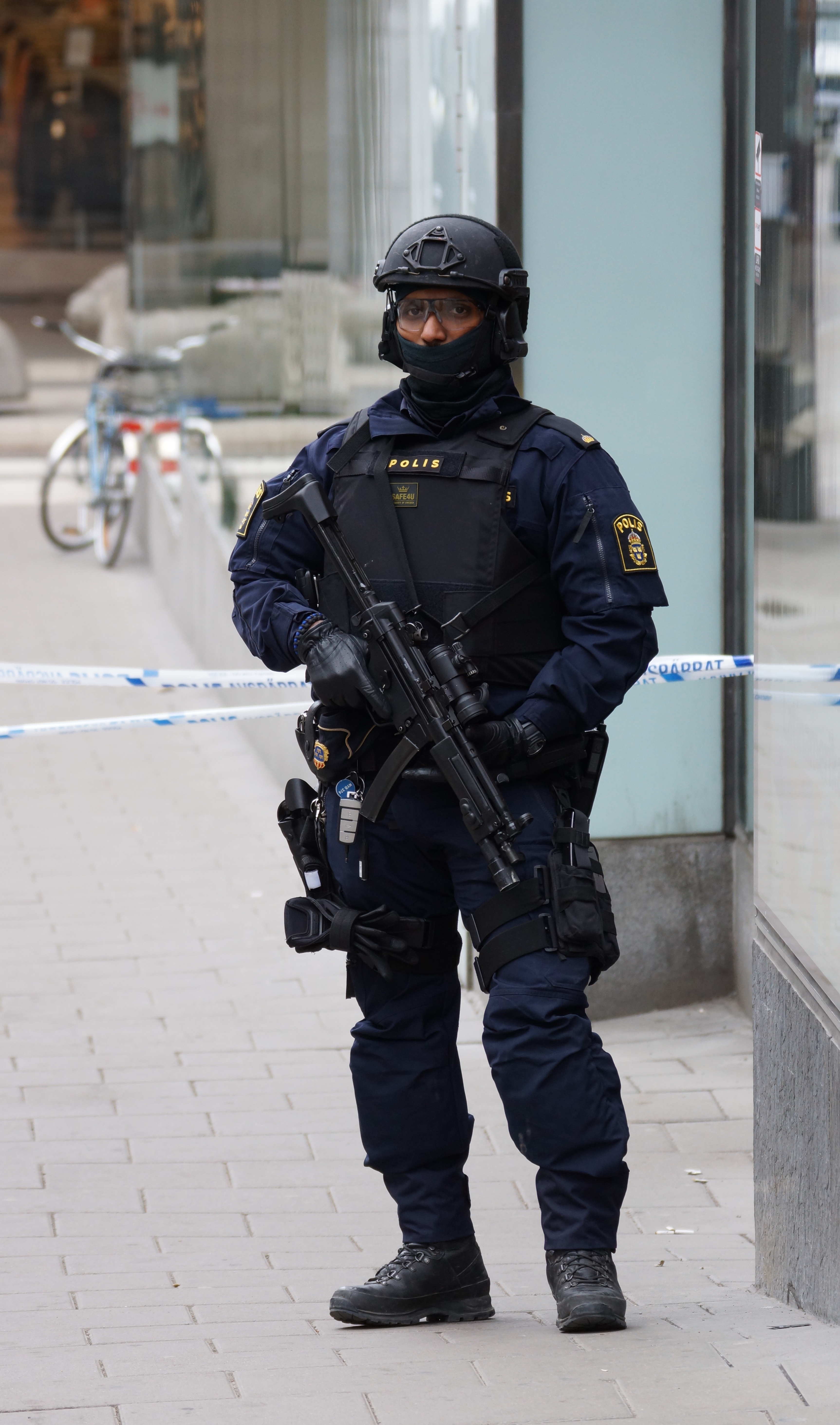 Swedish police officer from the Reinforced Regional Task Force. Photo taken in Stockholm the day after the 2017 attack.